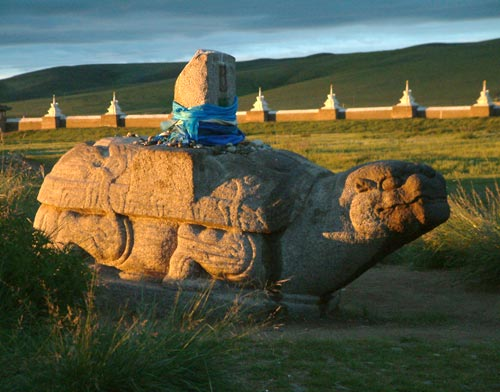 Stone Tortoise (bixi), Karakorum, Harhorin, Mongolia